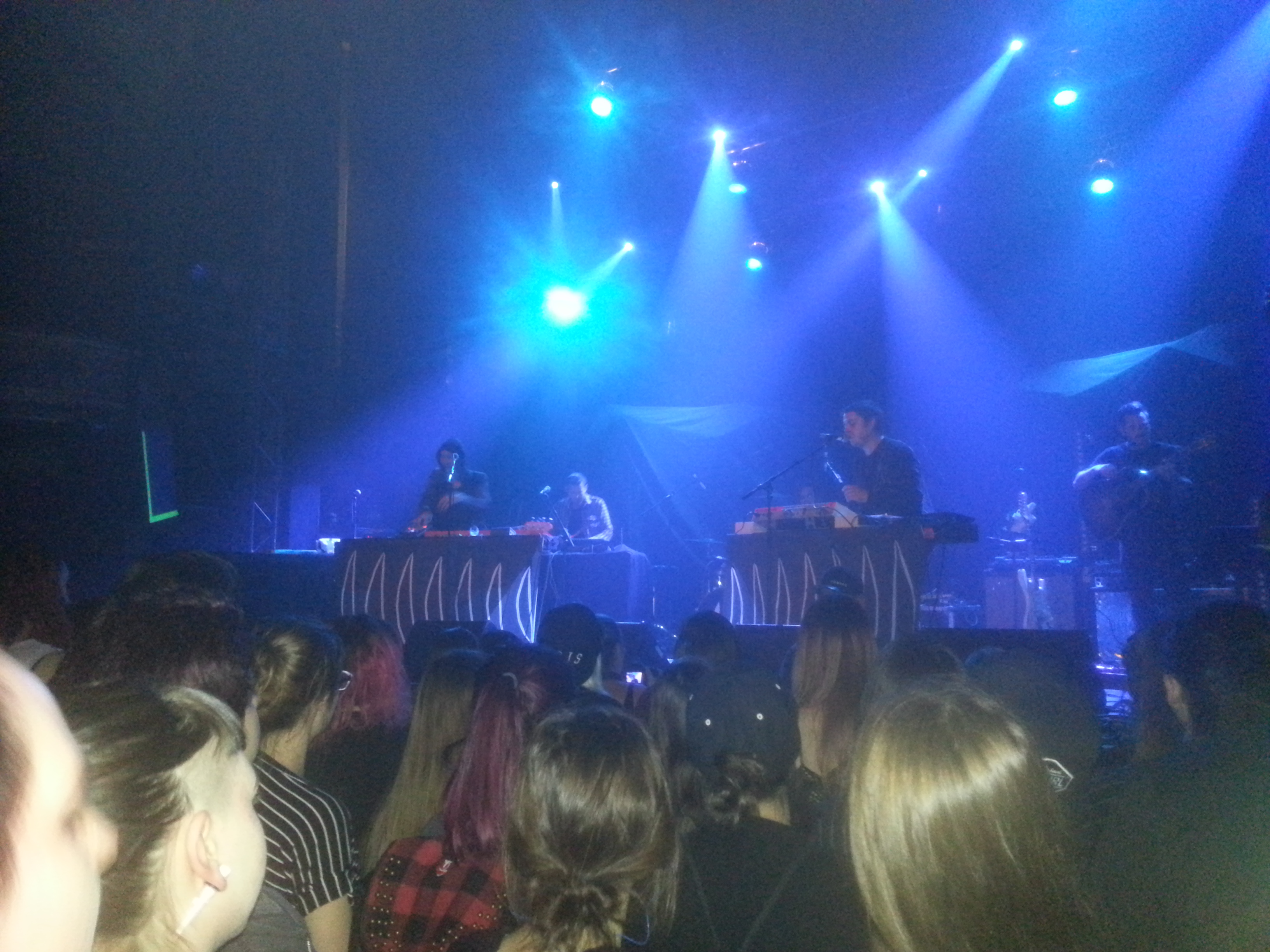 Polyenso photographed in Montréal, Québec, Canada at the Corona Theatre.